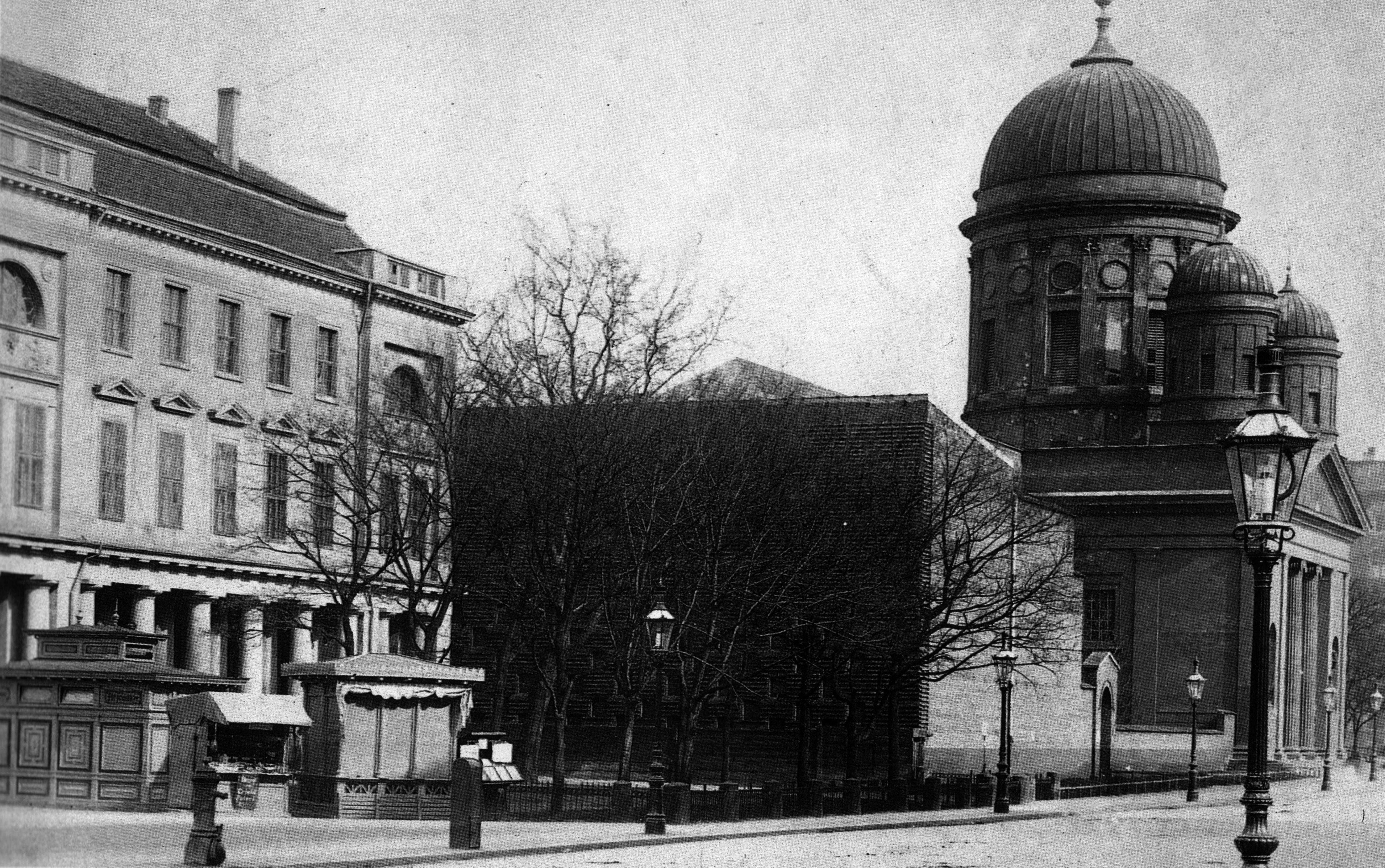 To the left the building formerly used by the Berlin Stock Exchange, to the right the old Berlin Cathedral, both on the road Am Lustgarten (today Mitte district).